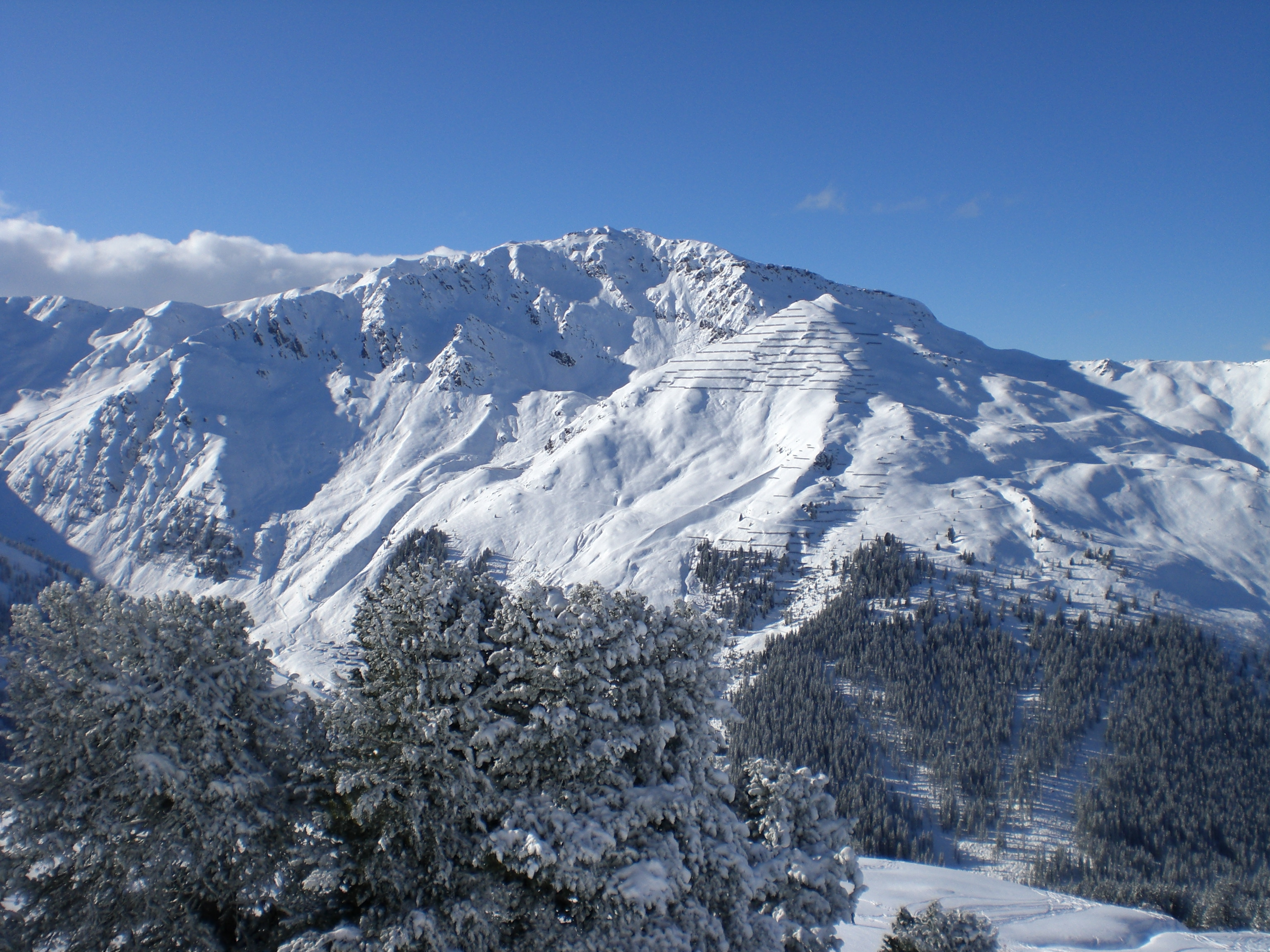 A view of the Gilfert and lower Sonntagsköpfl peaks in the Tuxer Alps, Tyrol, Austria, from the east, across the Finsinggrund valley, from Holzalm.